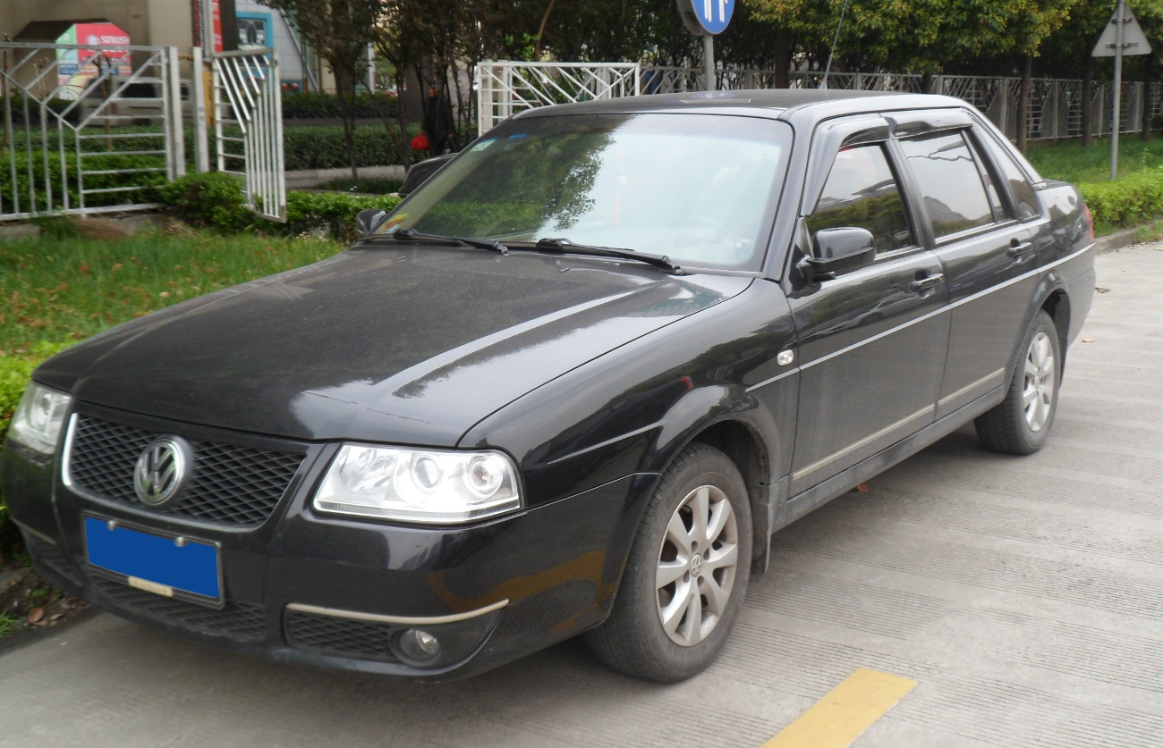 Volkswagen Santana Vista photographed in Shanghai, China.